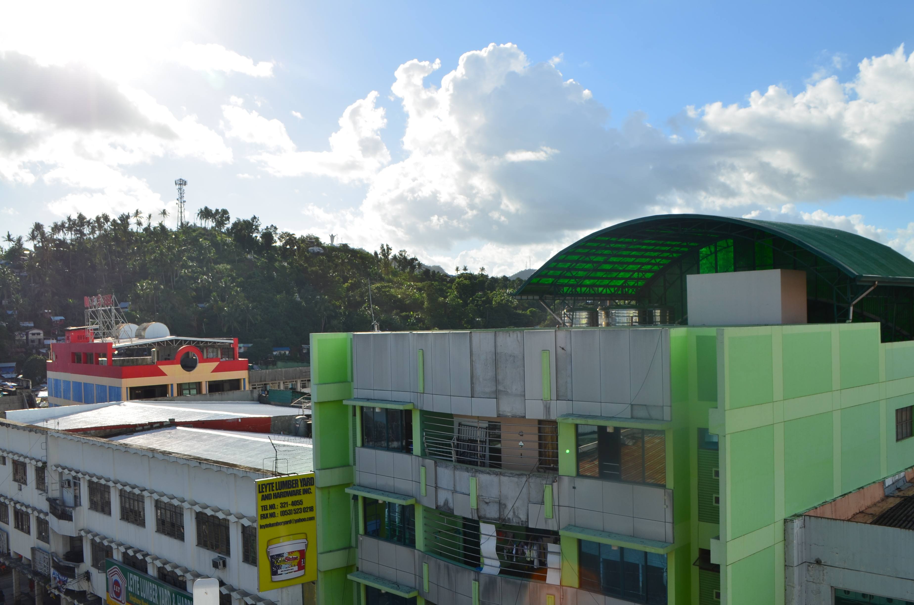 Taken during the December 2015 Sinirangan Bisaya Wikimedia Community activities in Eastern Visayas